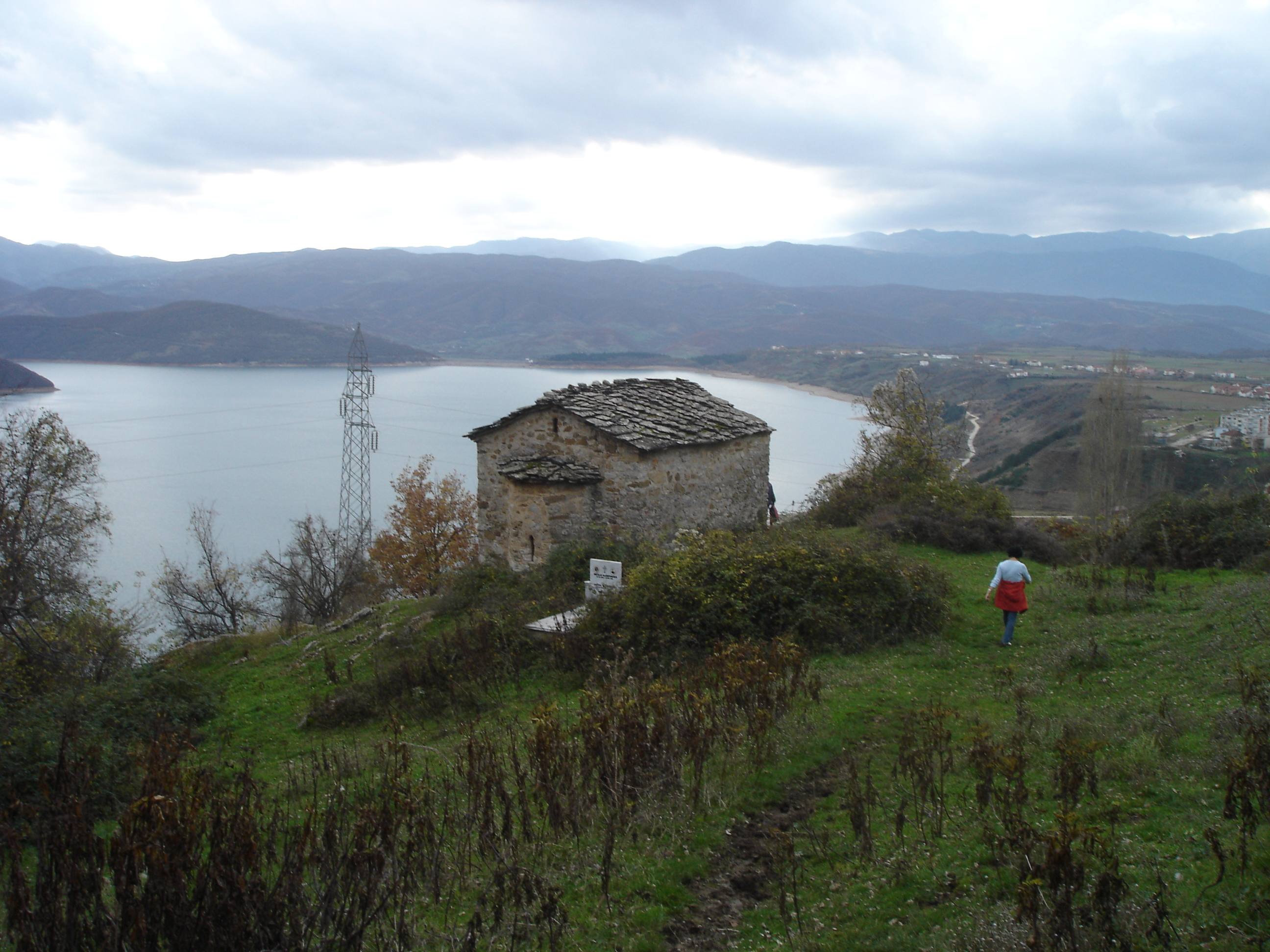 The church of St. Varvara in the village of Rajcica near Debar, Macedonia